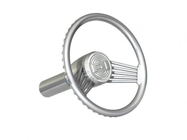 Photoworks Rendering of a Banjo Steering Wheel for a 1951 Ford F-1 Streetrod Pickup.